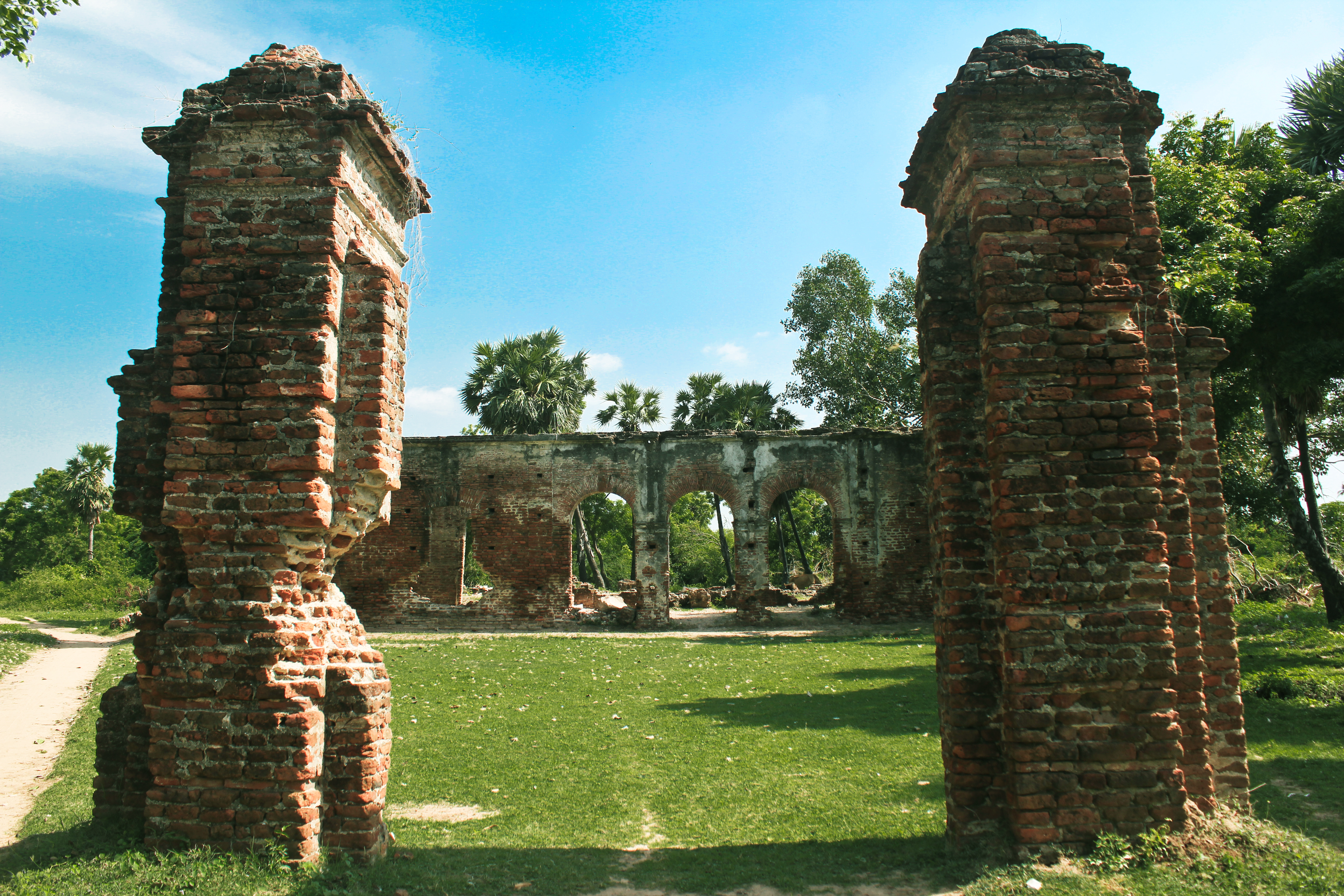 Arikamedu, Early Historic Site